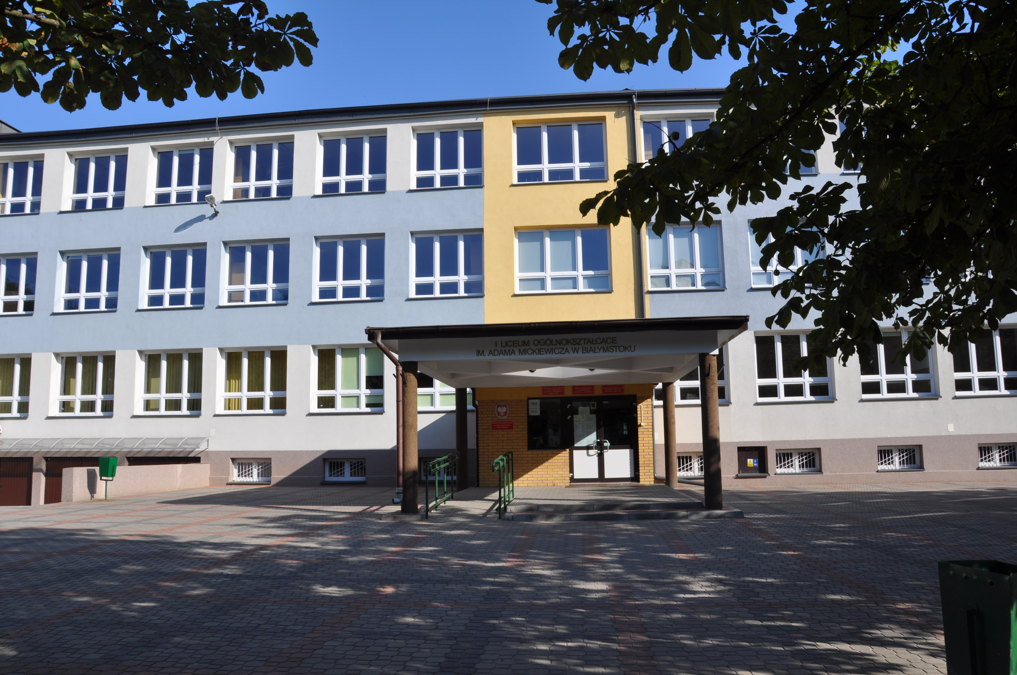 I High School in Białystok, Poland named after polish poet Adam Mickiewicz.